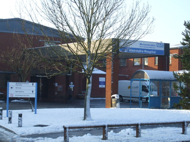 Alexandra Hospital Main Entrance Main entrance to the Alexandra Hospital, Redditch